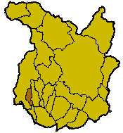 Location map of Uzzano in the province of Pistoria.